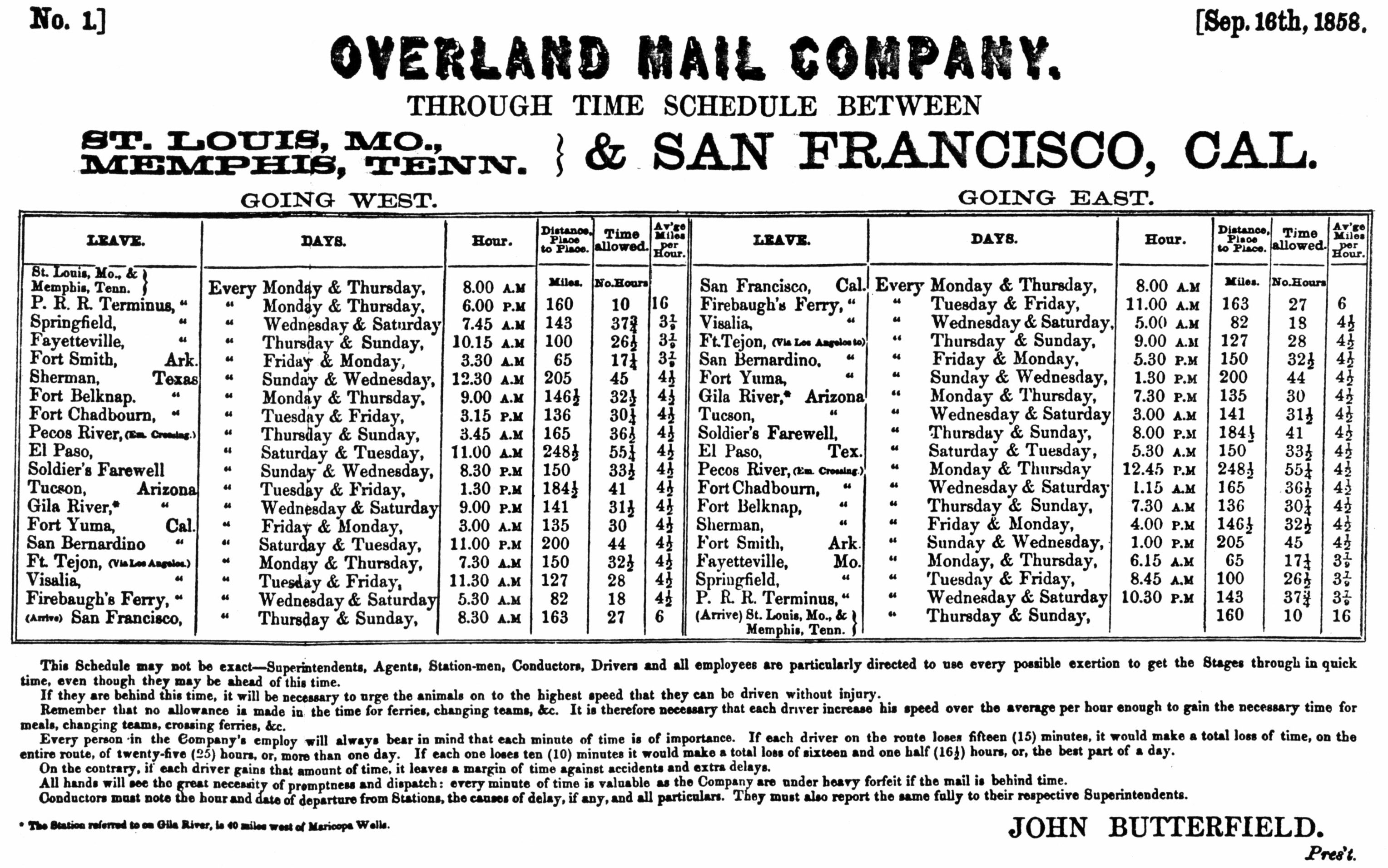 Titled "OVERLAND MAIL COMPANY. THROUGH TIME SCHEDULE BETWEEN ST. LOUIS, MO., MEMPHIS, TENN., & SAN FRANCISCO, CAL., No. 1, Sep. 16th, 1858." It was signed by John Butterfield, President. This schedule gave the days of the week for departure and arrival at the east and west terminals to meet the contract time of twenty-five days or less.